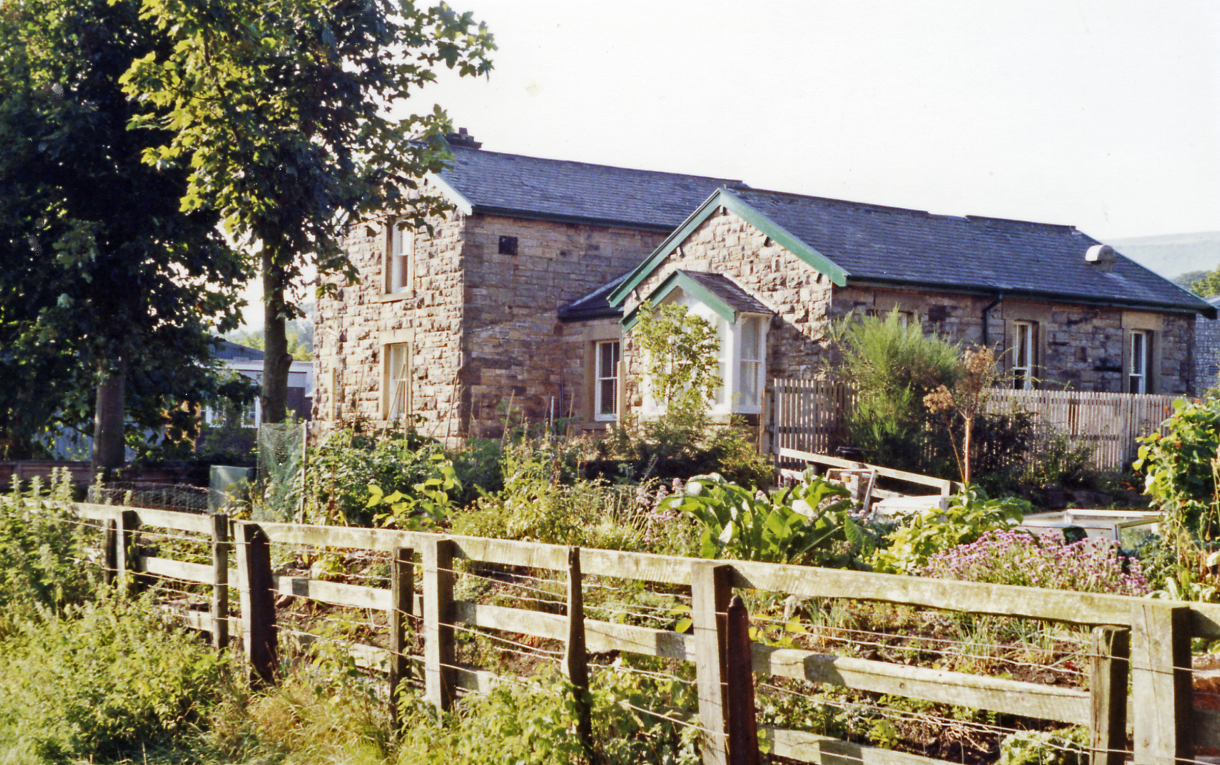 Former Askrigg station, 1991 View NE of converted station remains: ex-NER Wensleydale line, Northallerton (to right) - Hawes (to left).